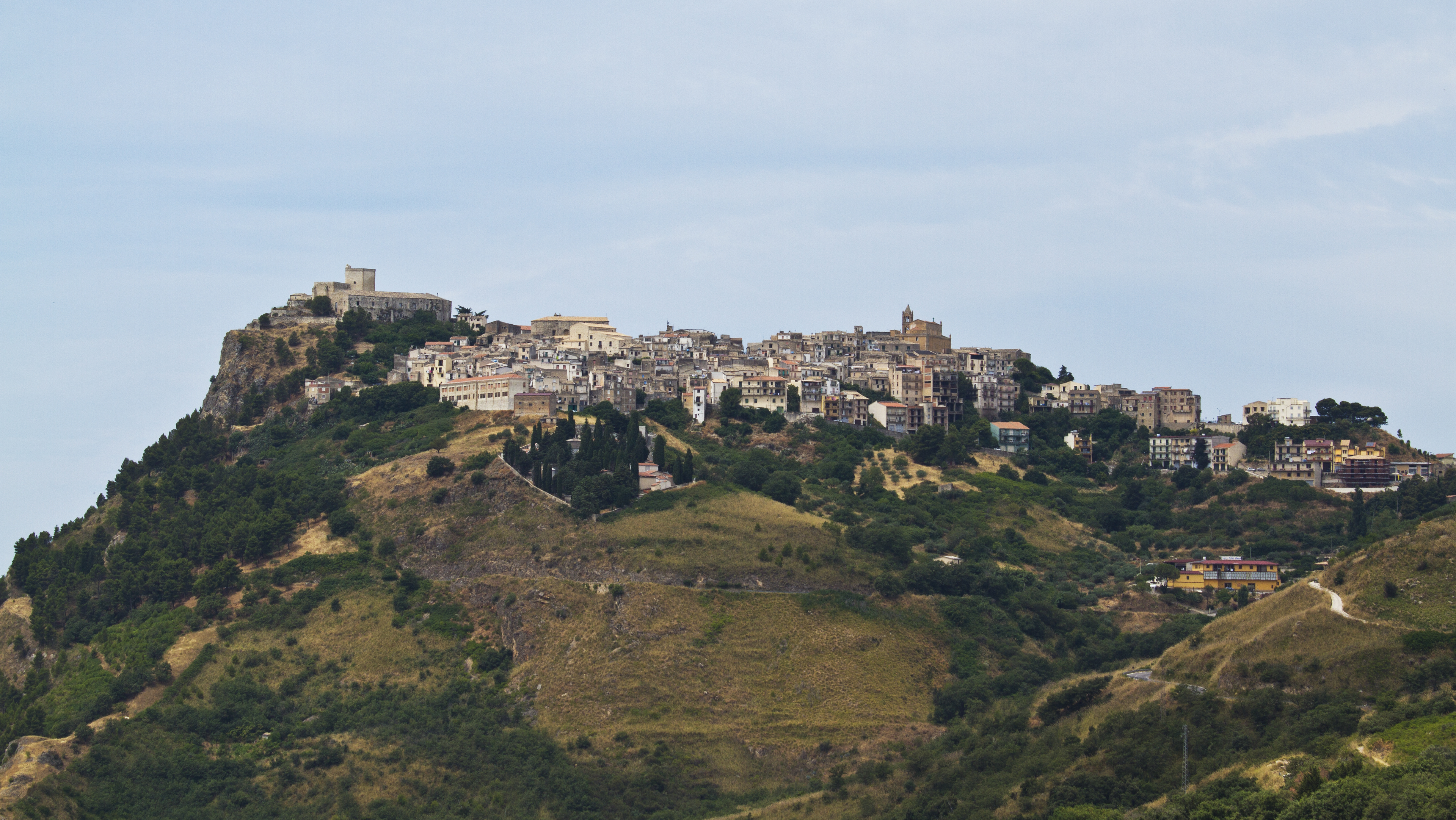 Giuliana, Palermo, Sicily, Italy